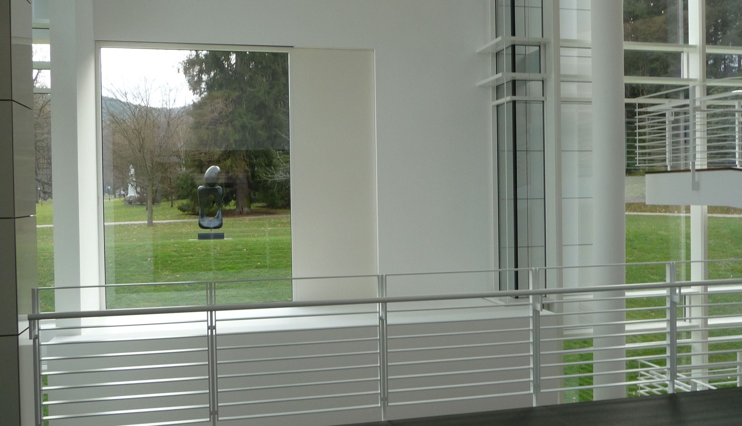 Burda-Museum in Baden-Baden, Germany